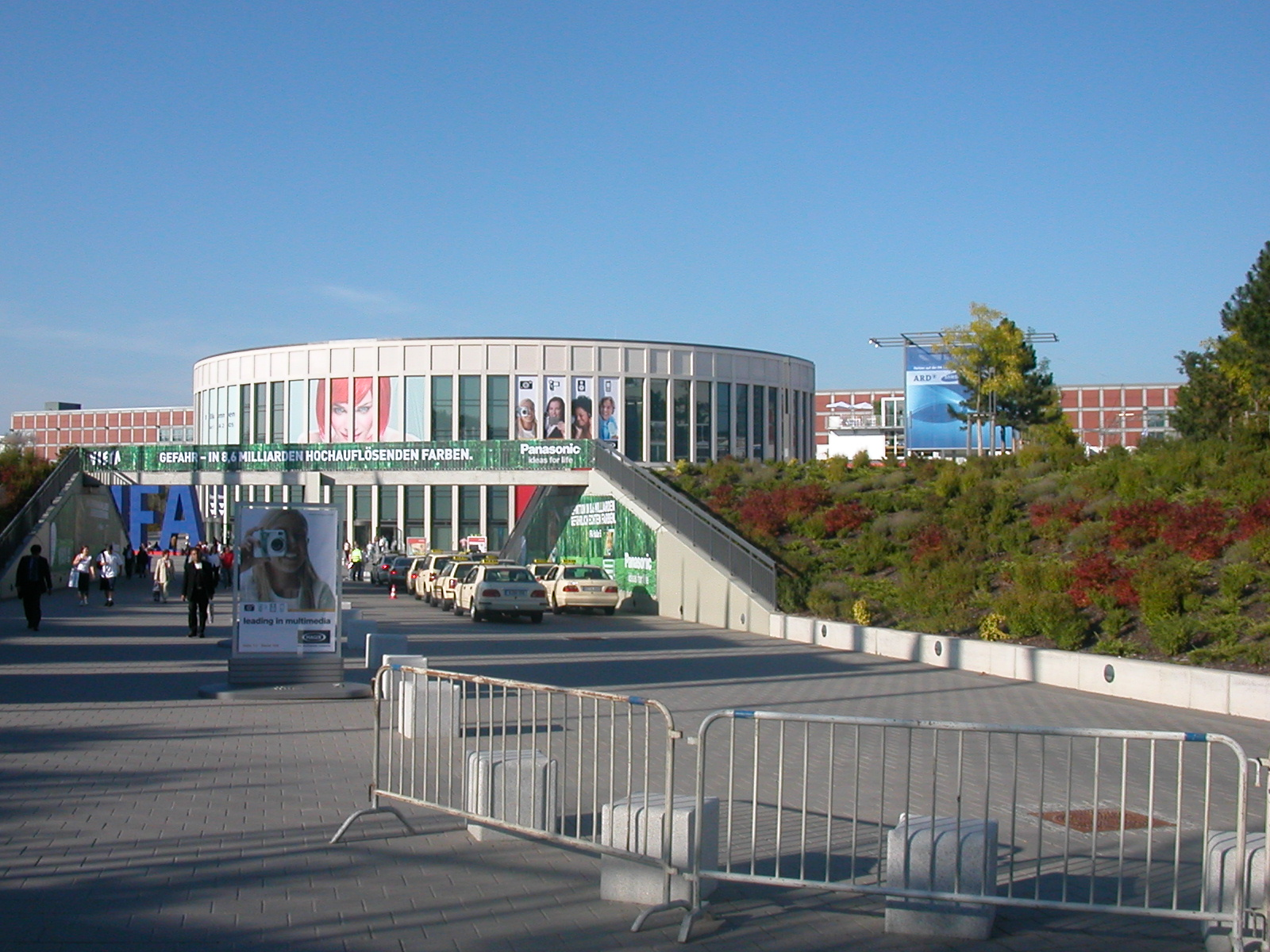 The southern entrance to Berlin's fair area